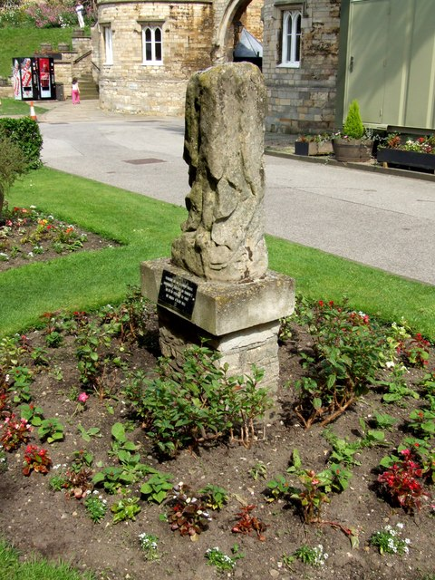 Lincoln Castle, Lincoln Reputedly, the remains of the Eleanor Cross, which originally stood at the foot of Cross O'Cliff Hill. This cross, one of twelve, was erected by Edward I in memory of his queen, Eleanor of Castile, who died at Harby in November 1290.